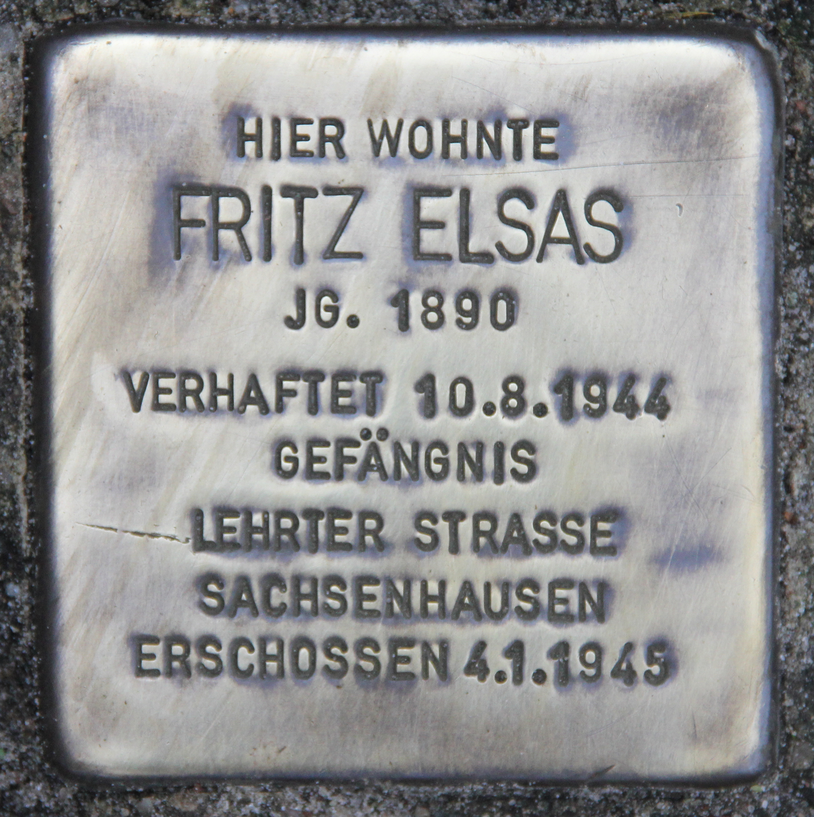 "Stolperstein" (stumbling block), Fritz Elsas, Patschkauer Weg 41, Berlin-Lichterfelde, Germany